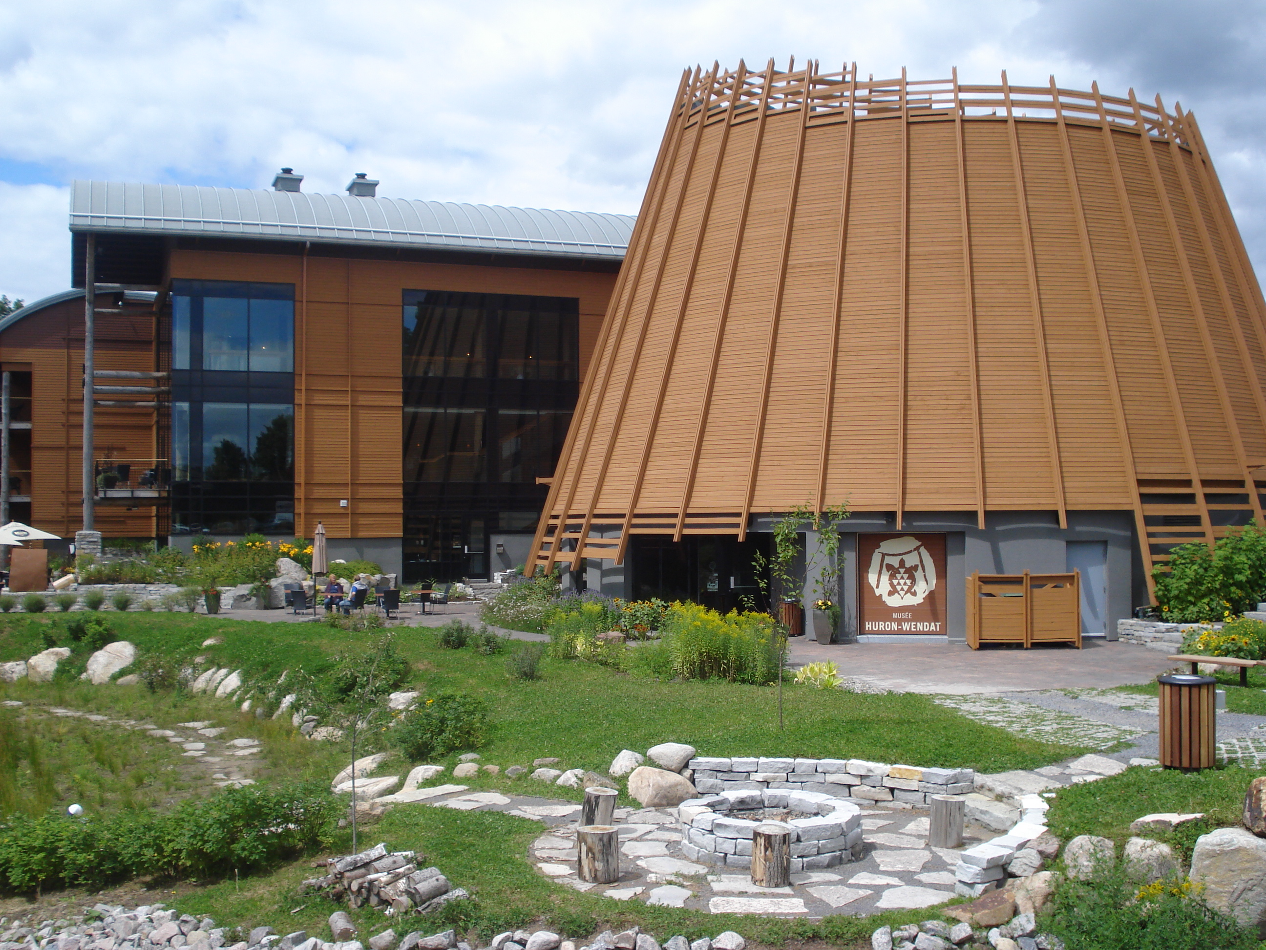 Museum of the Hôtel-Musée Premières Nations located to Wendake, Québec, Canada.